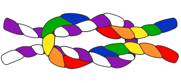 The square knot logo of The Inclusive Scouting Network